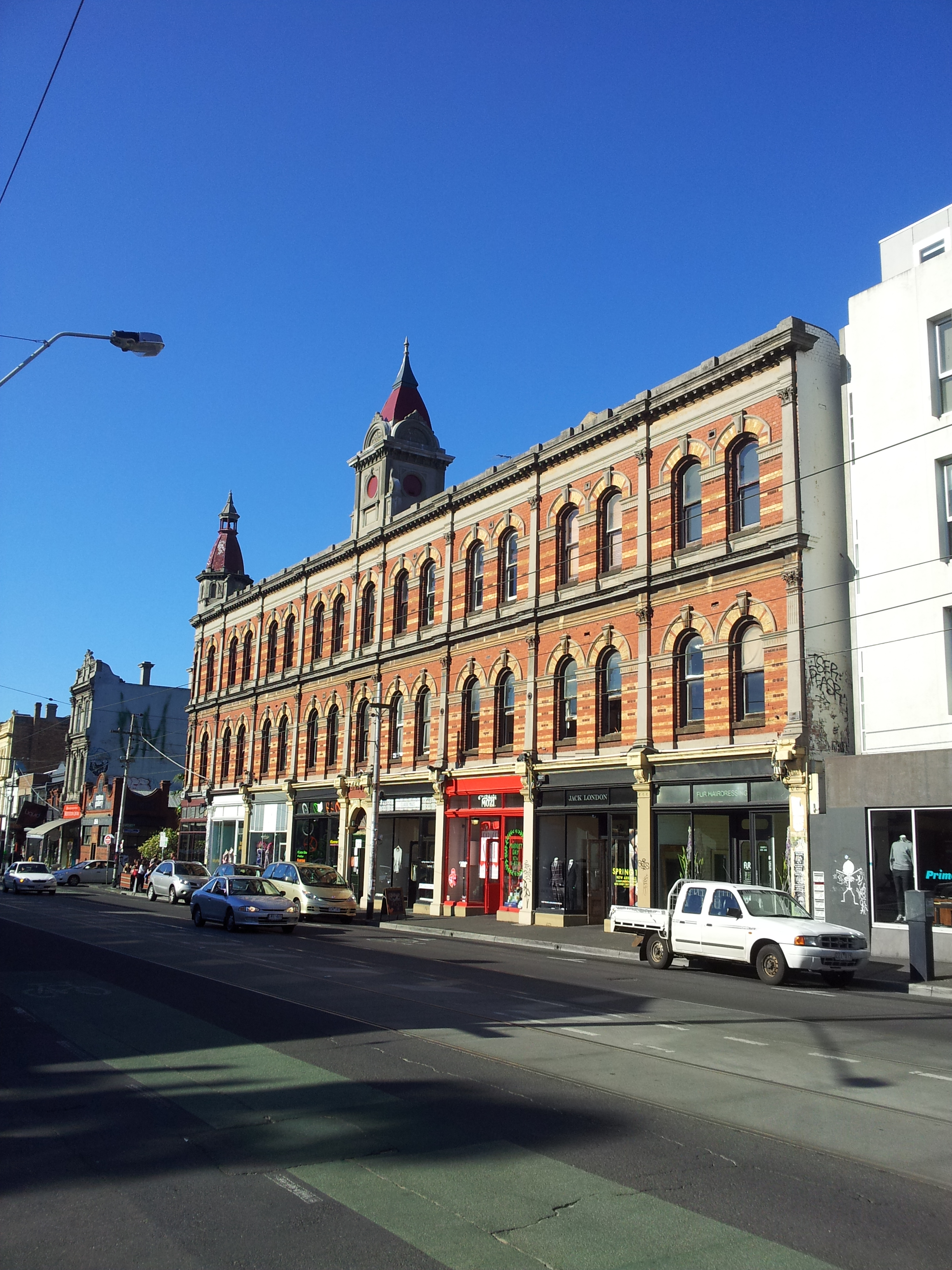 Beswicke Building, Brunswick Street, Fitzroy, 1888